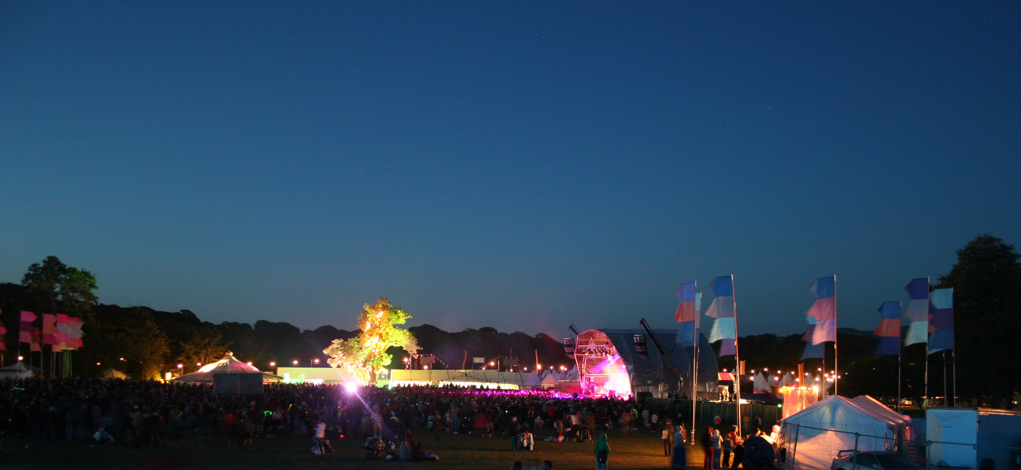 Nighttime view of the 2008 Camp Bestival in Dorset